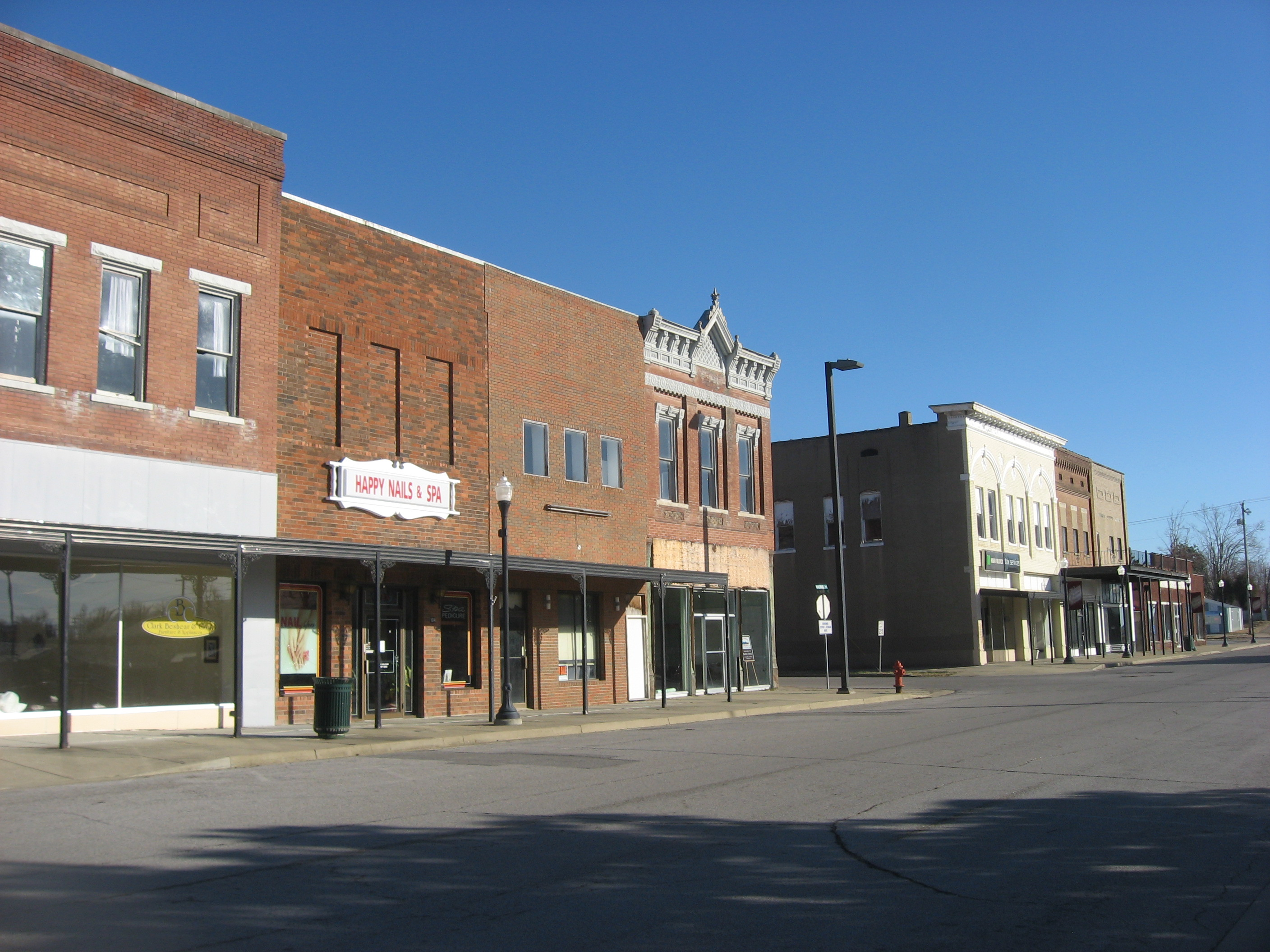 Buildings on the northern side of Railroad Avenue at the Main Street intersection in Dawson Springs, Kentucky, United States. This block is part of the Dawson Springs Historic District, a historic district that is listed on the National Register of Historic Places.